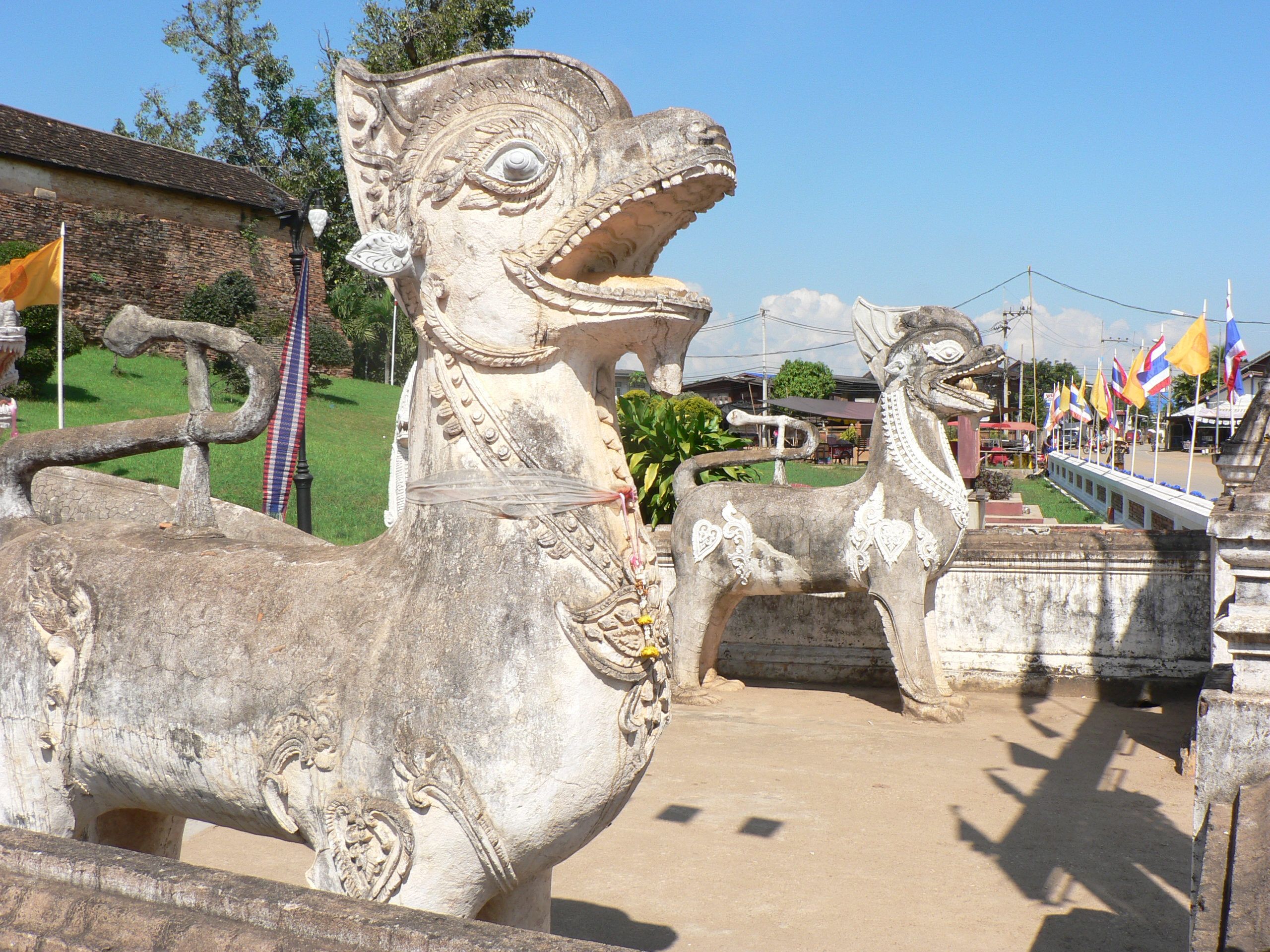 Wat Phrathat Lampang Luang, Lampang, Thailand